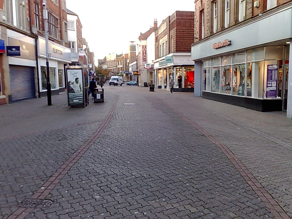 High Street in Kettering in Northamptonshire, UK.